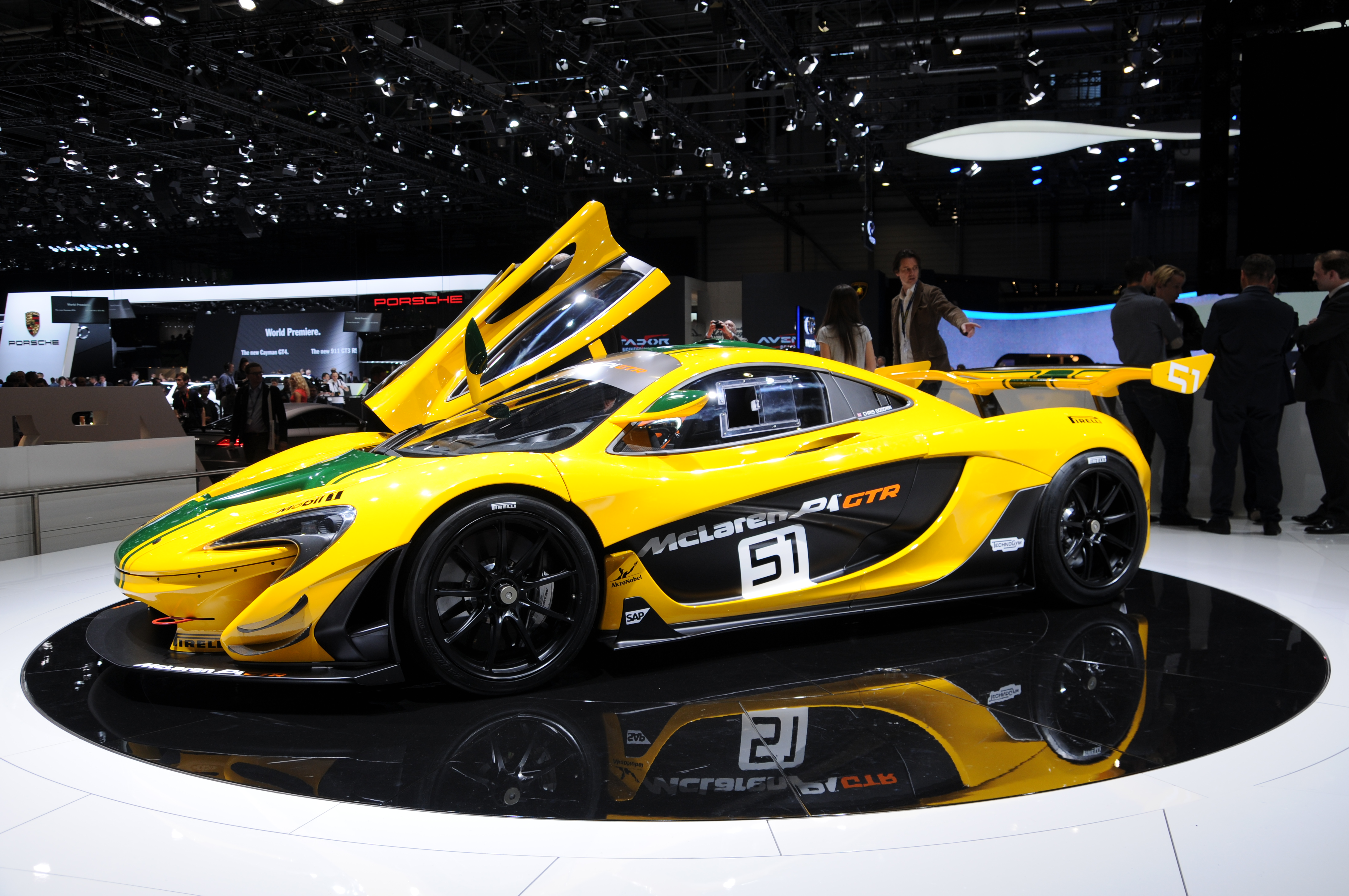 Geneva Motor Show 2015 (photo taken on the first press day)